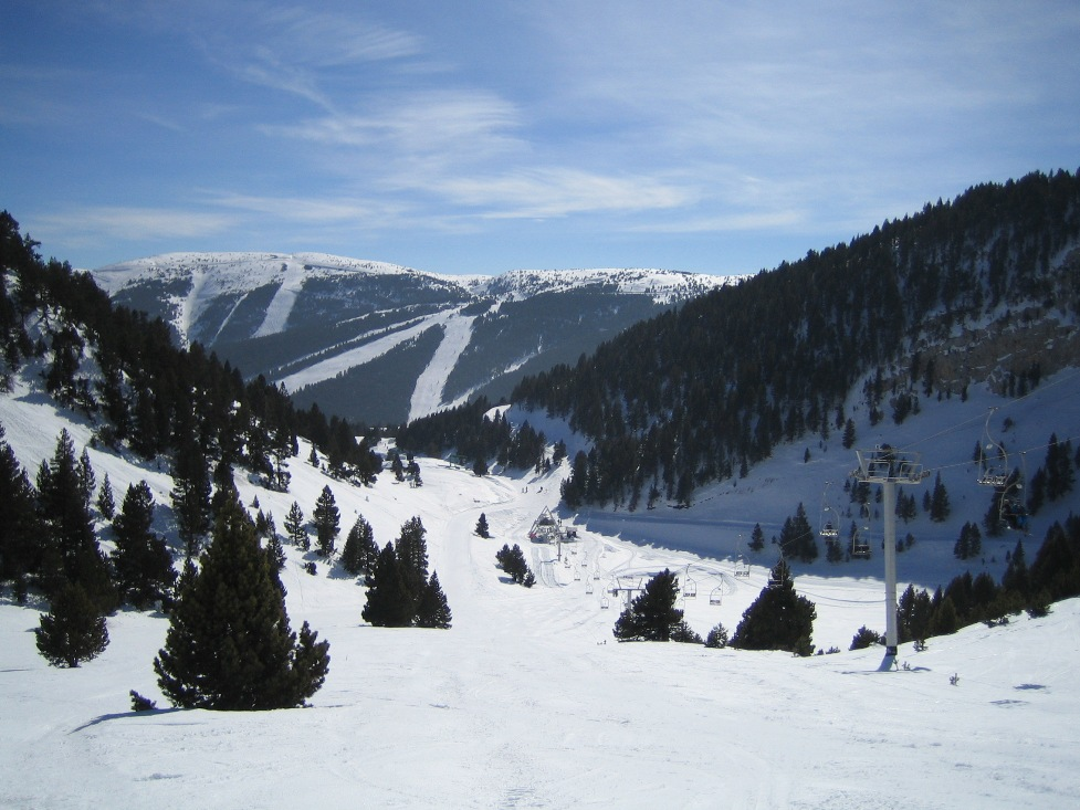 Port del Comte slopes as seen from Estivella (Solsonès, Catalonia).